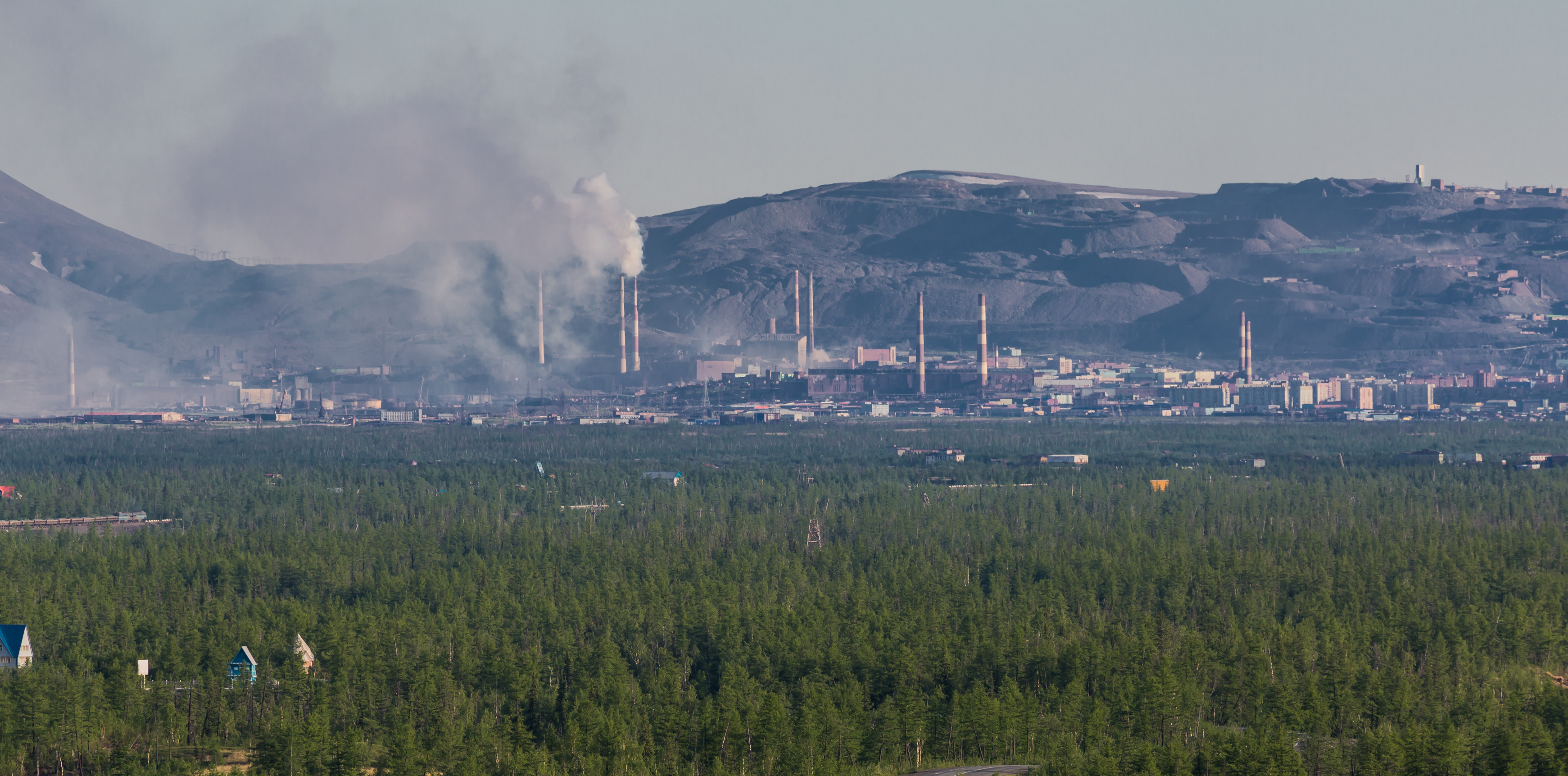 Norilsk, seen from Talnakh